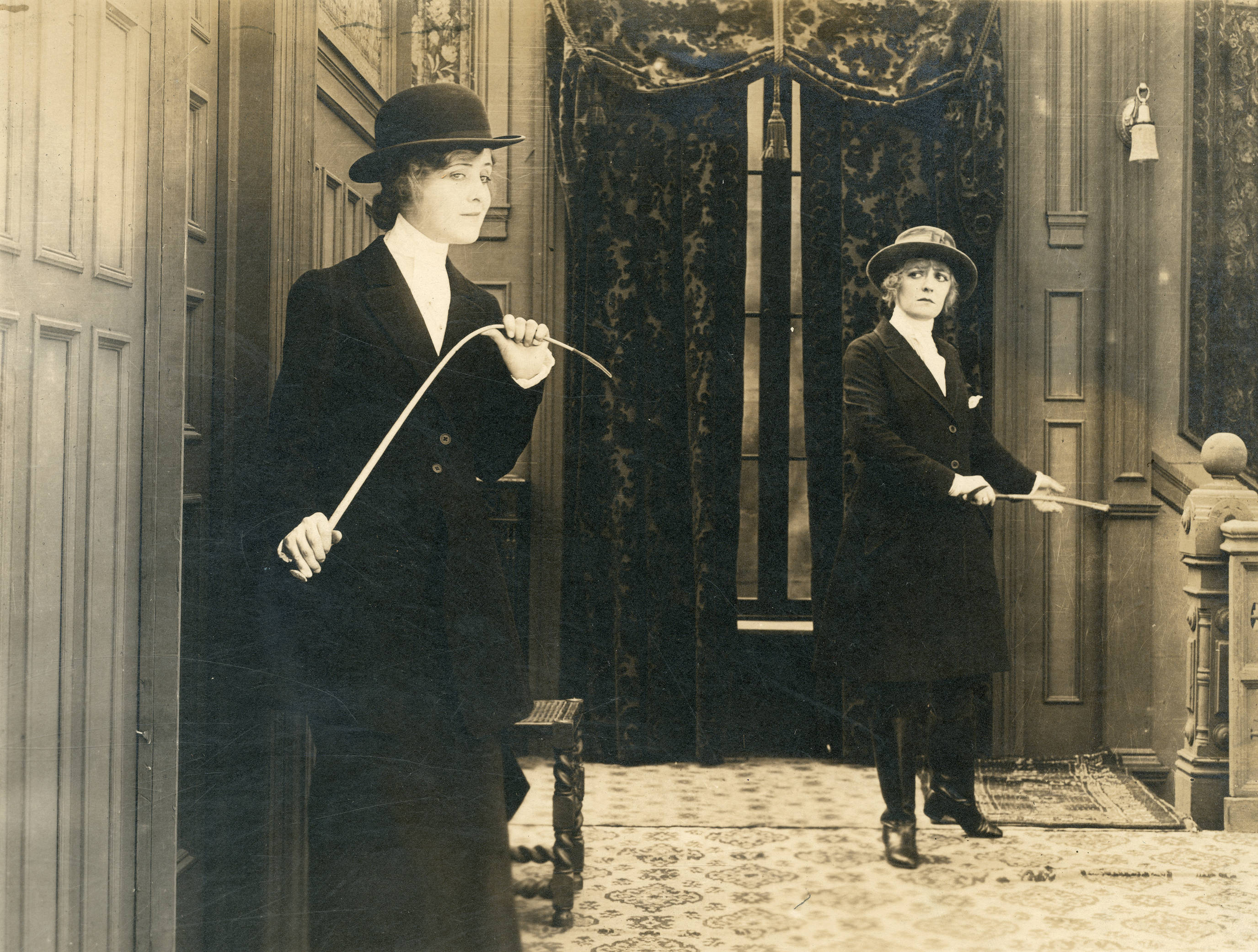 Irene Fenwick in a scene from the American mystery film The Green Cloak (1915) which showed at the Colonial Theater, Seattle. Date stamped Oct. 9, 1917. Subjects: motion pictures, actresses